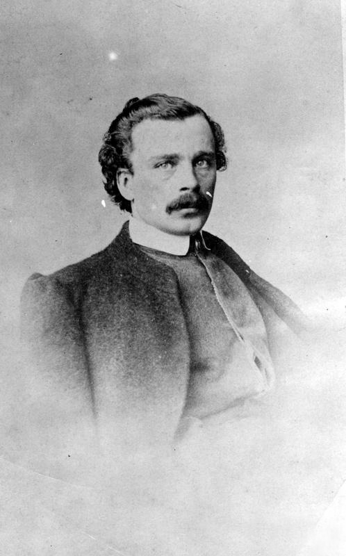 Mieczysław Romanowski (1833-1863) - Polish poet.